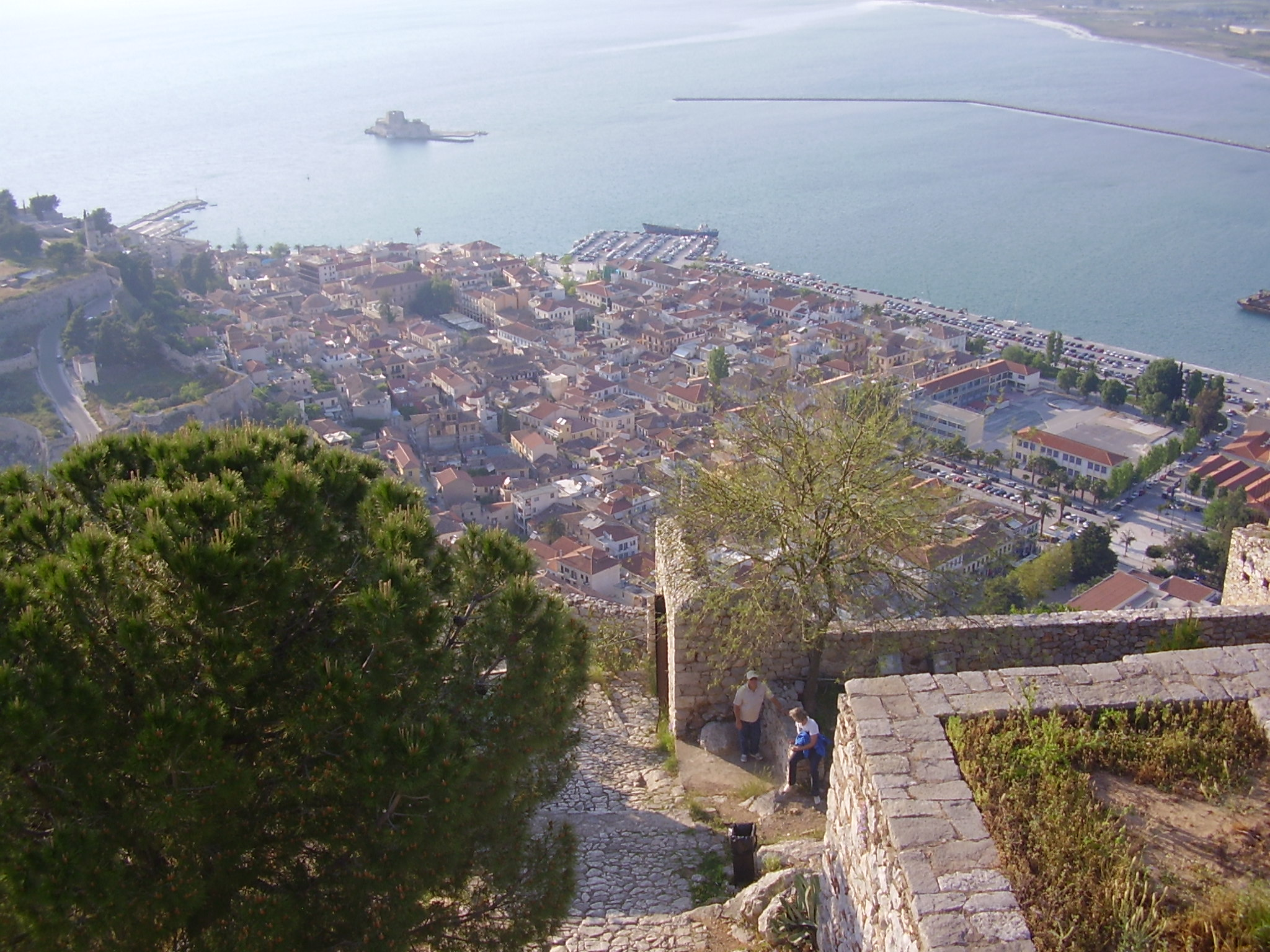 View of the old part of the city of Nafplion from Palamidi castle. Photo taken by FocalPoint, 2006